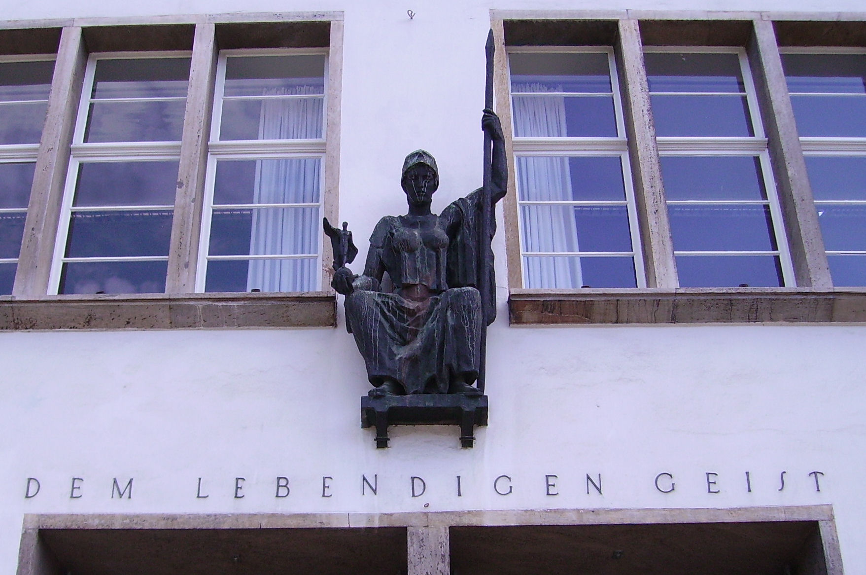 views of Heidelberg, Germany. This is Minerva aka Pallas Athene, sculpted by Karl Albiker in 1931